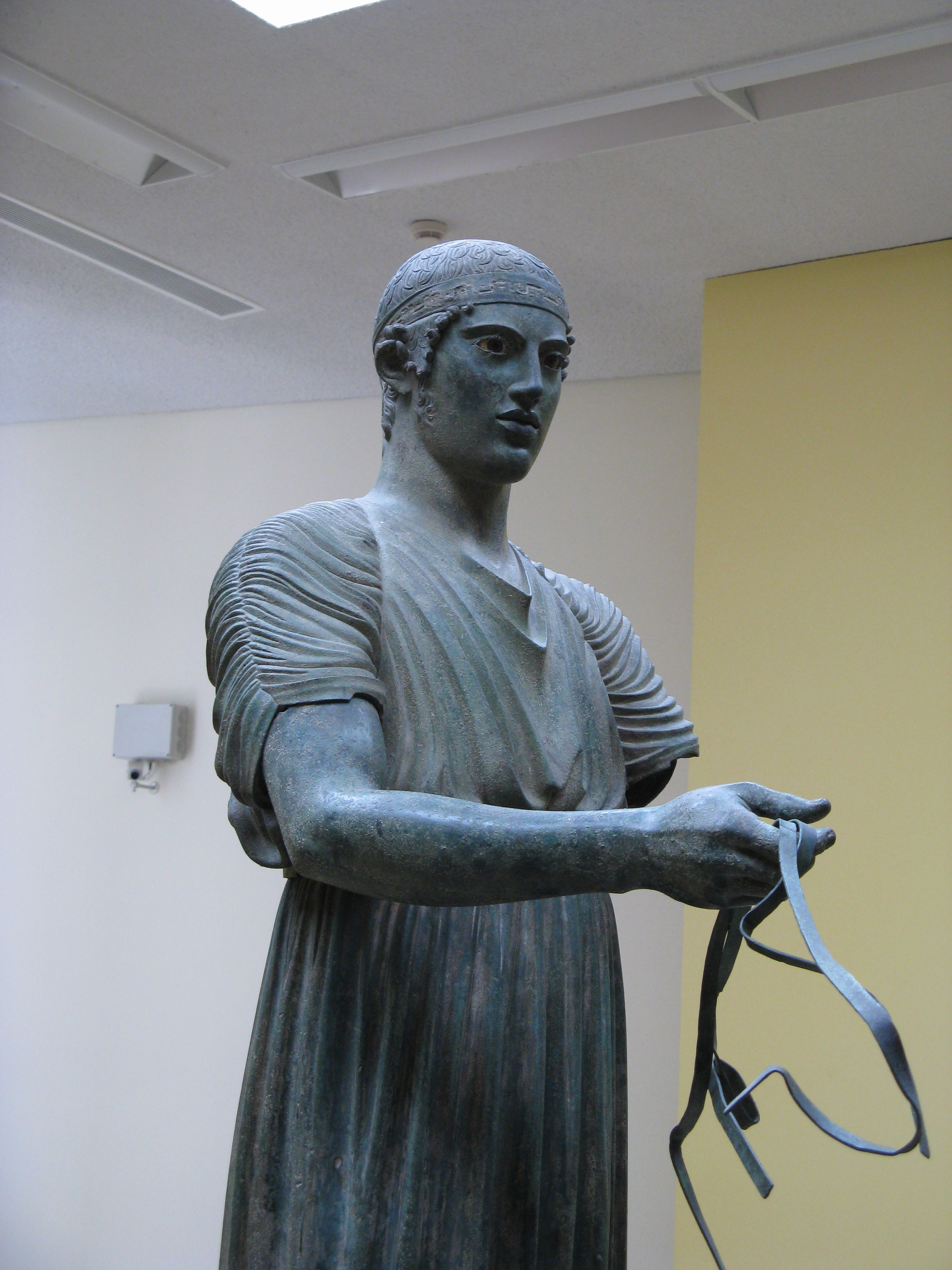 The bronze statue of the Charioteer. Votive of the Polyzalos' tyrant of Gela in Sicily, after his victory at the chariot races during the Pythia 470 B.C.